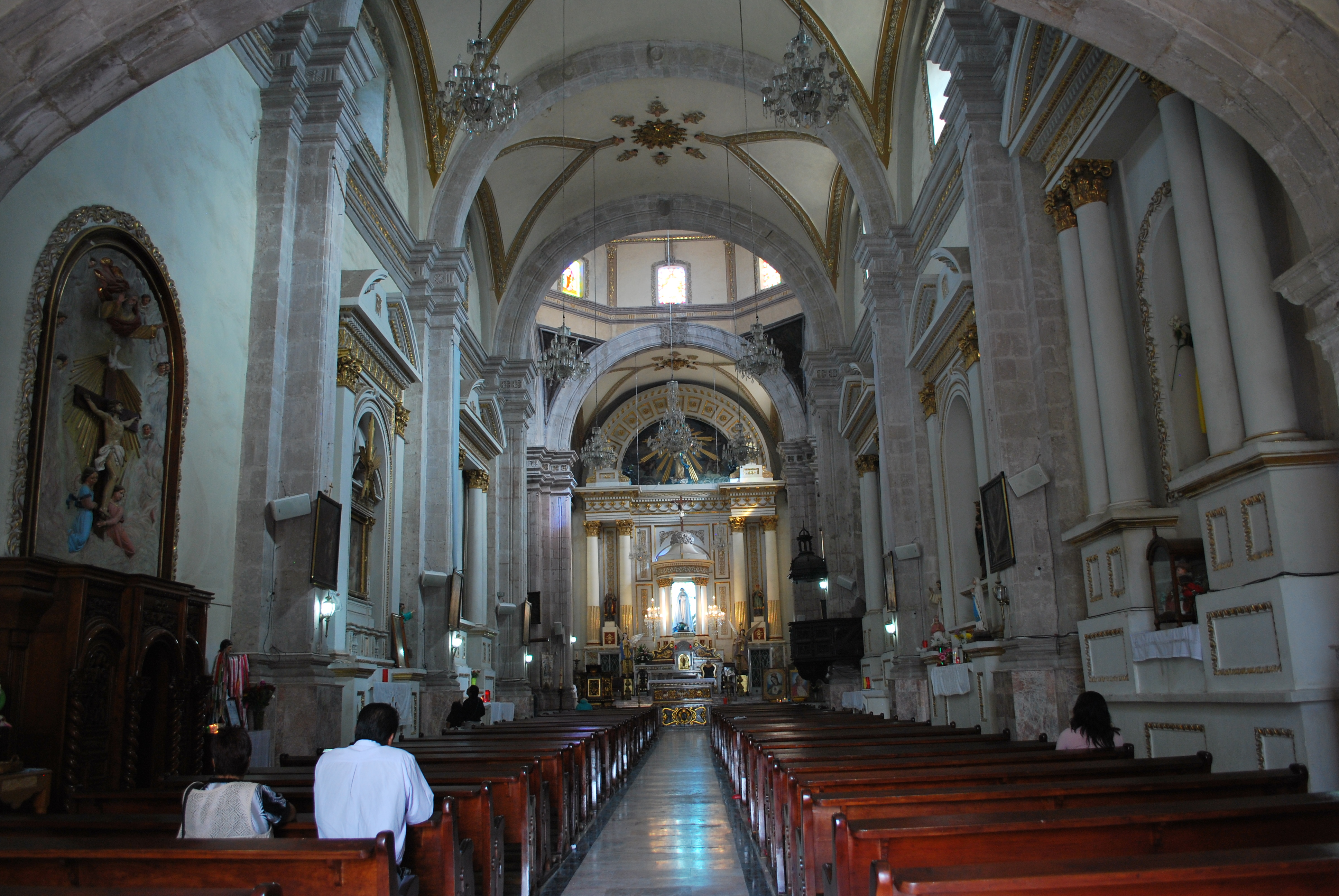 Nave inside the Parish of Purísima Concepción in Zumpango, Mexico State